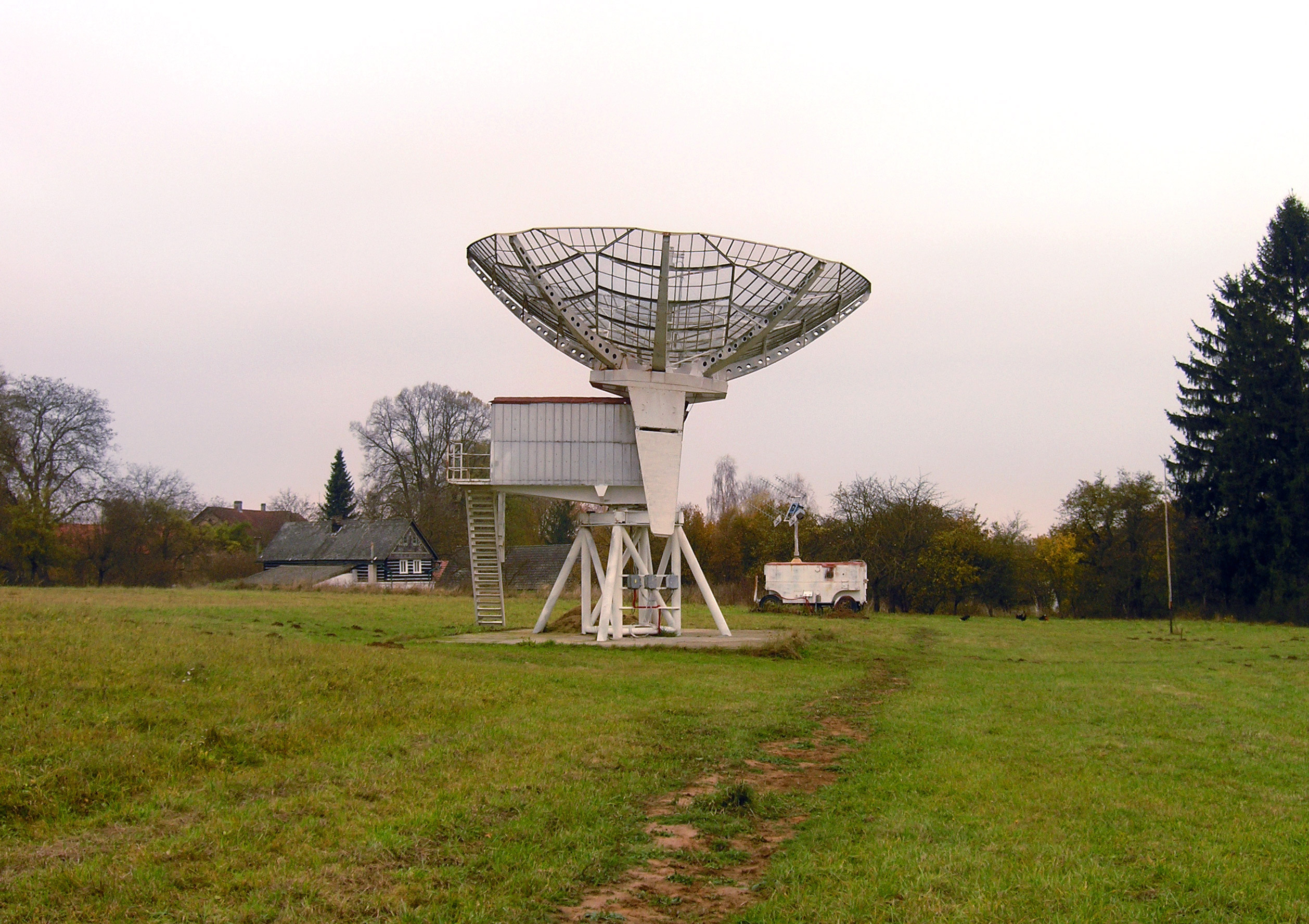 West parabolic aerial at the Observatory and Satellite Telemetry Station in Panská Ves village, part of Dubá town, Czech Republic